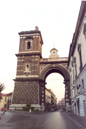 Porta Napoli in Aversa (Caserta, Italy)